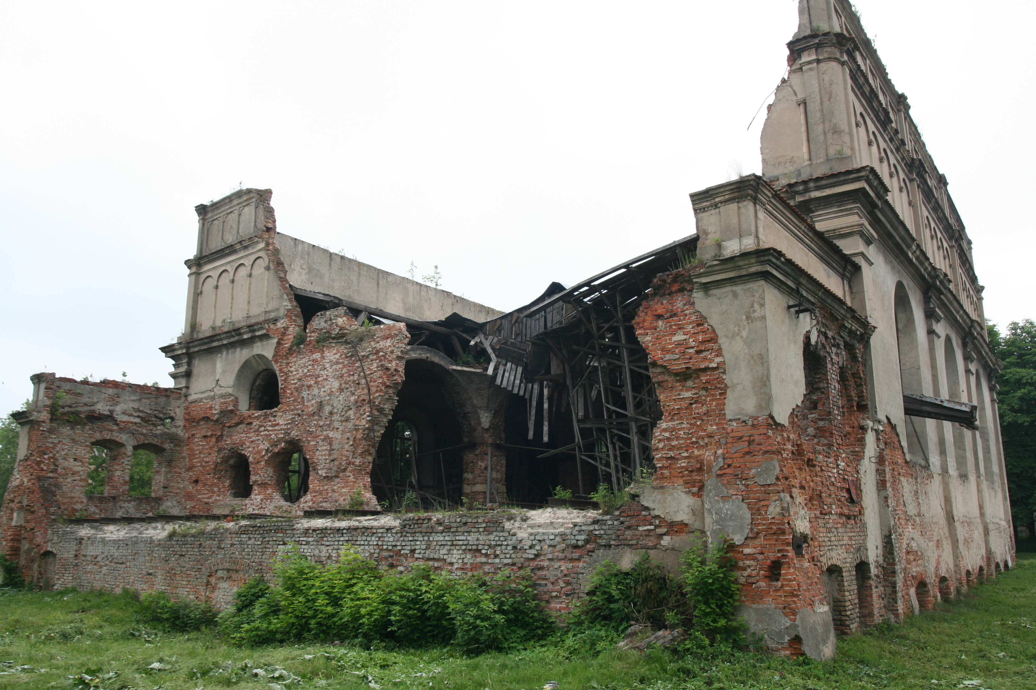 Brody Synagogue